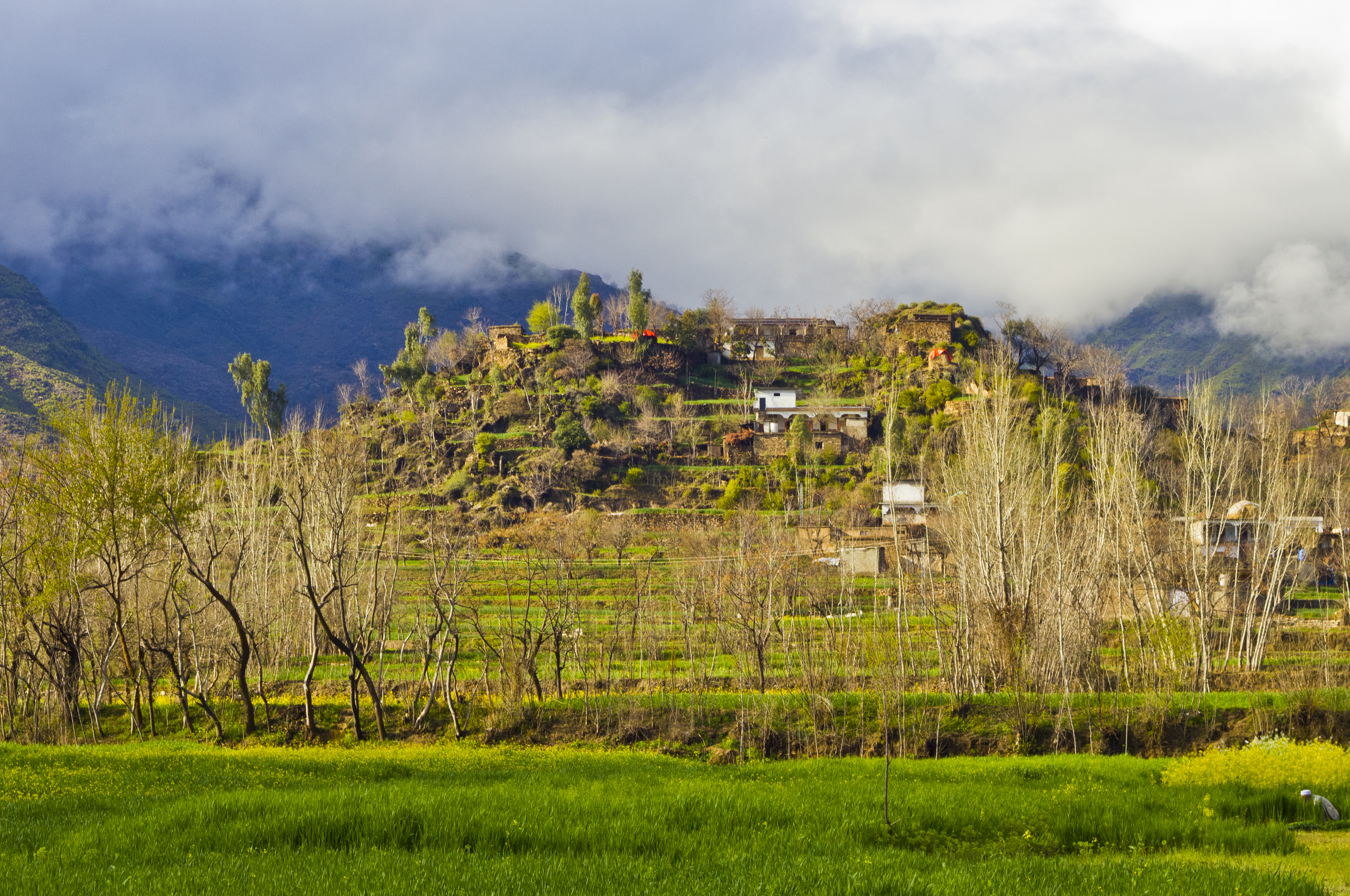 Spal Bandai (near Marghuzar), Khyber Pakhtunkhwa, Pakistan